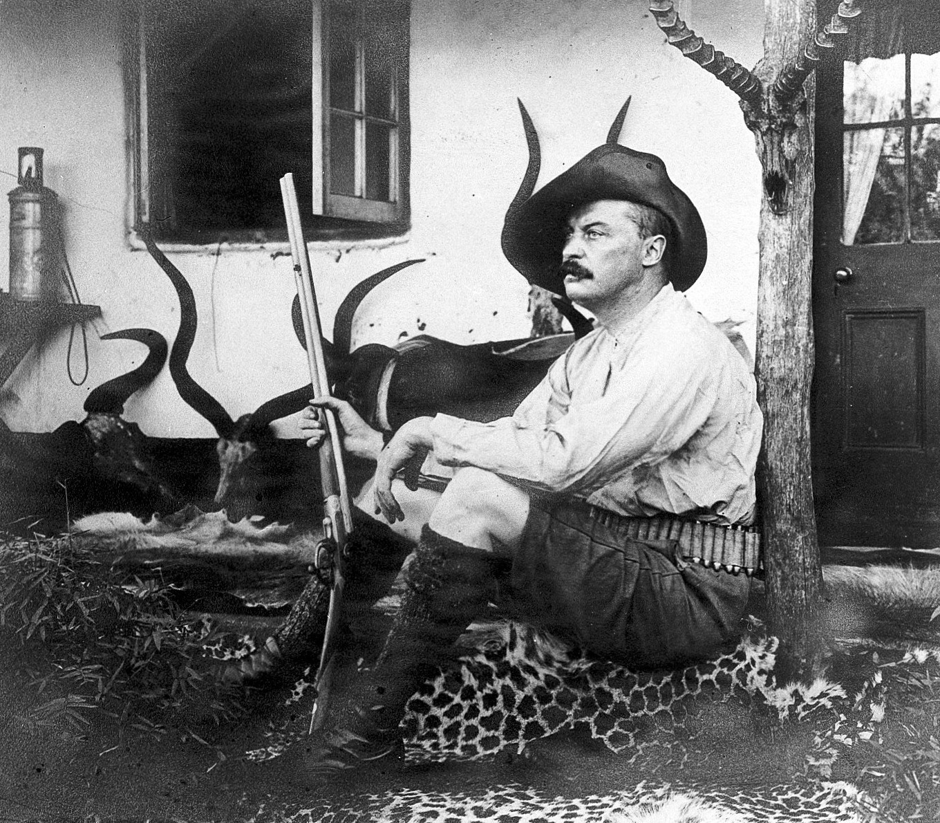 Sir David Bruce's photograph album, Zululand 1894-1896.